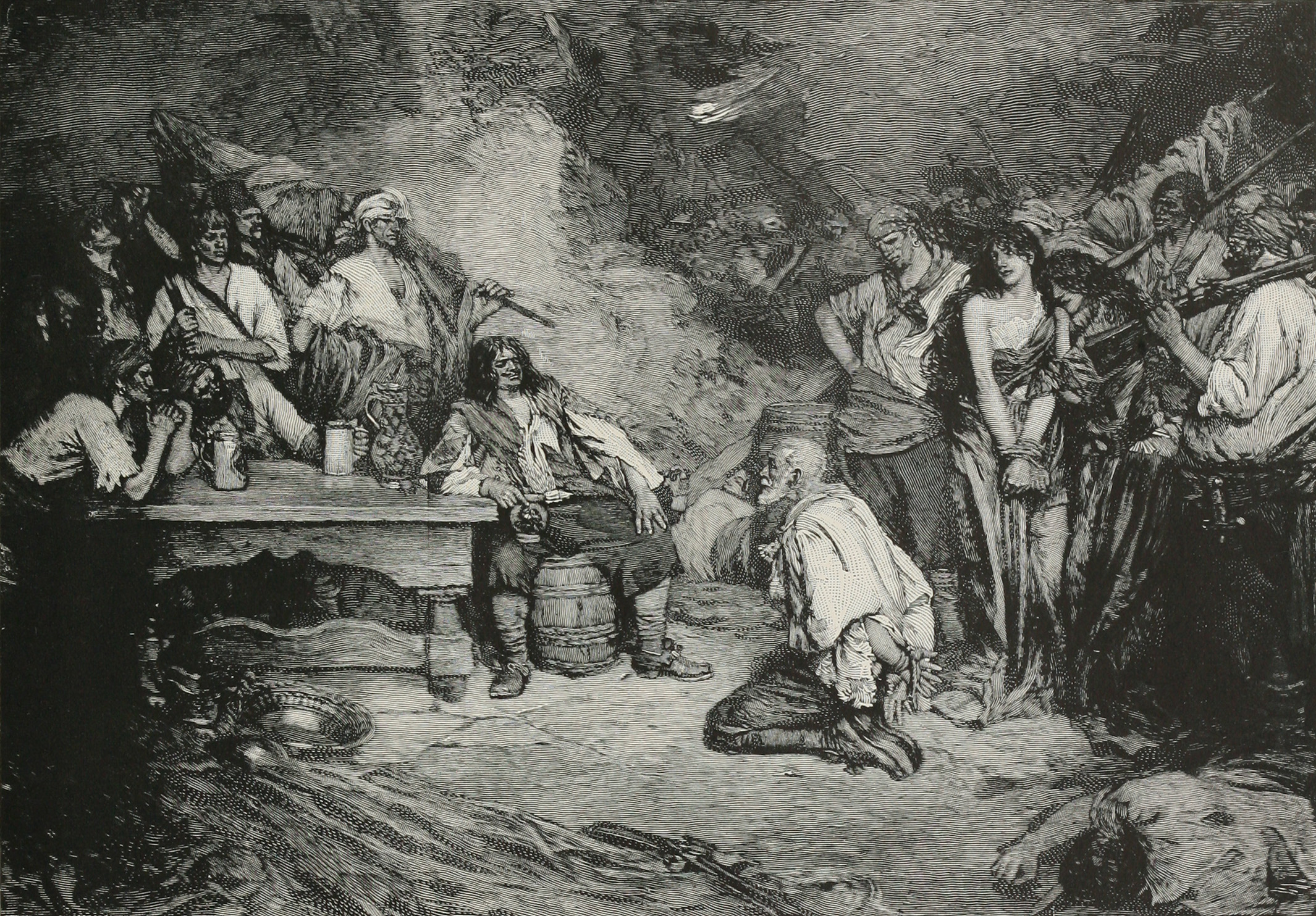 Morgan at Porto Bello: this was originally published in Pyle, Howard (December 1888). "Buccaneers and Marooners of the Spanish Main". Harper's Magazine.